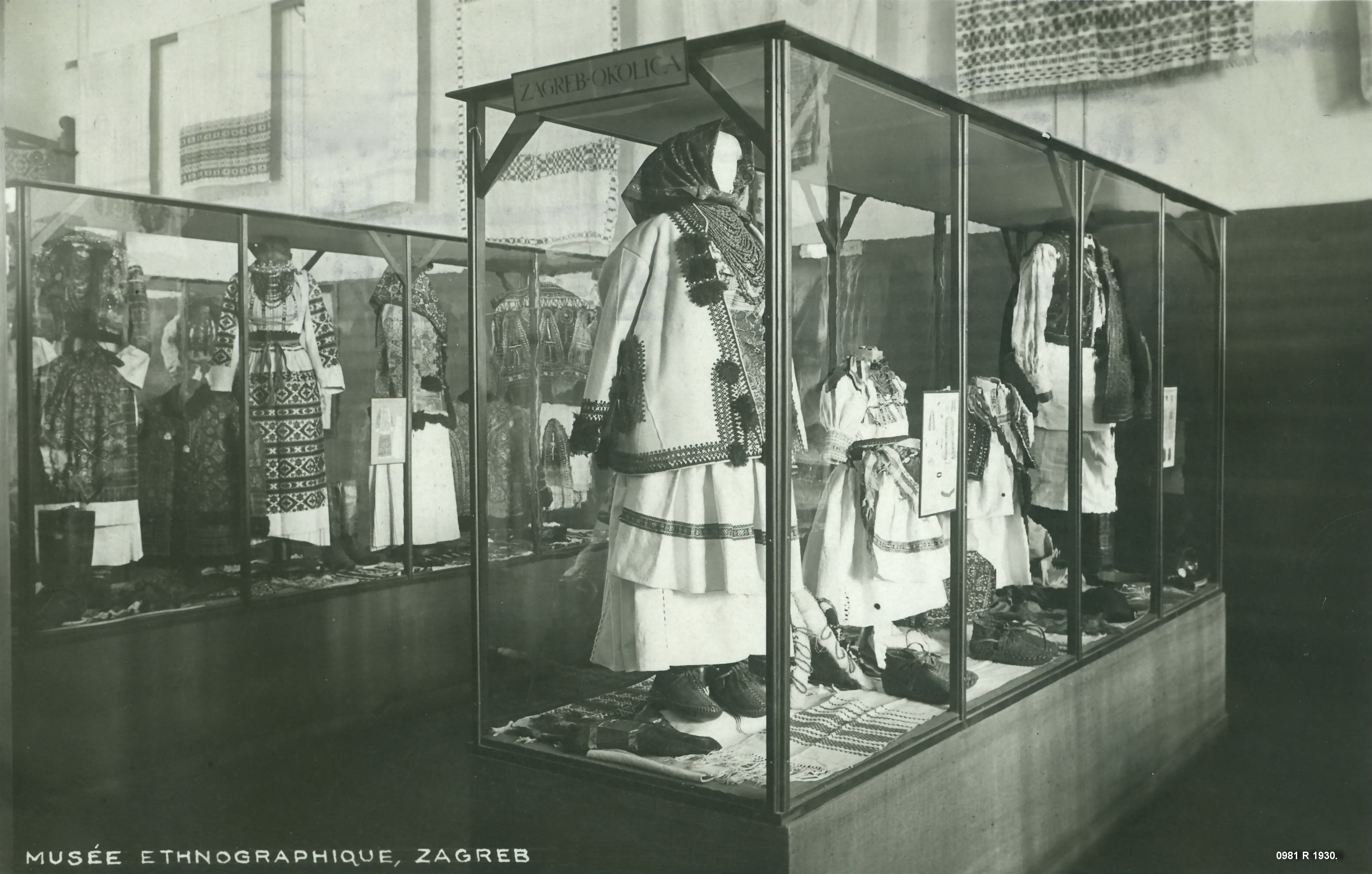 Ethnographic museum in Zagreb